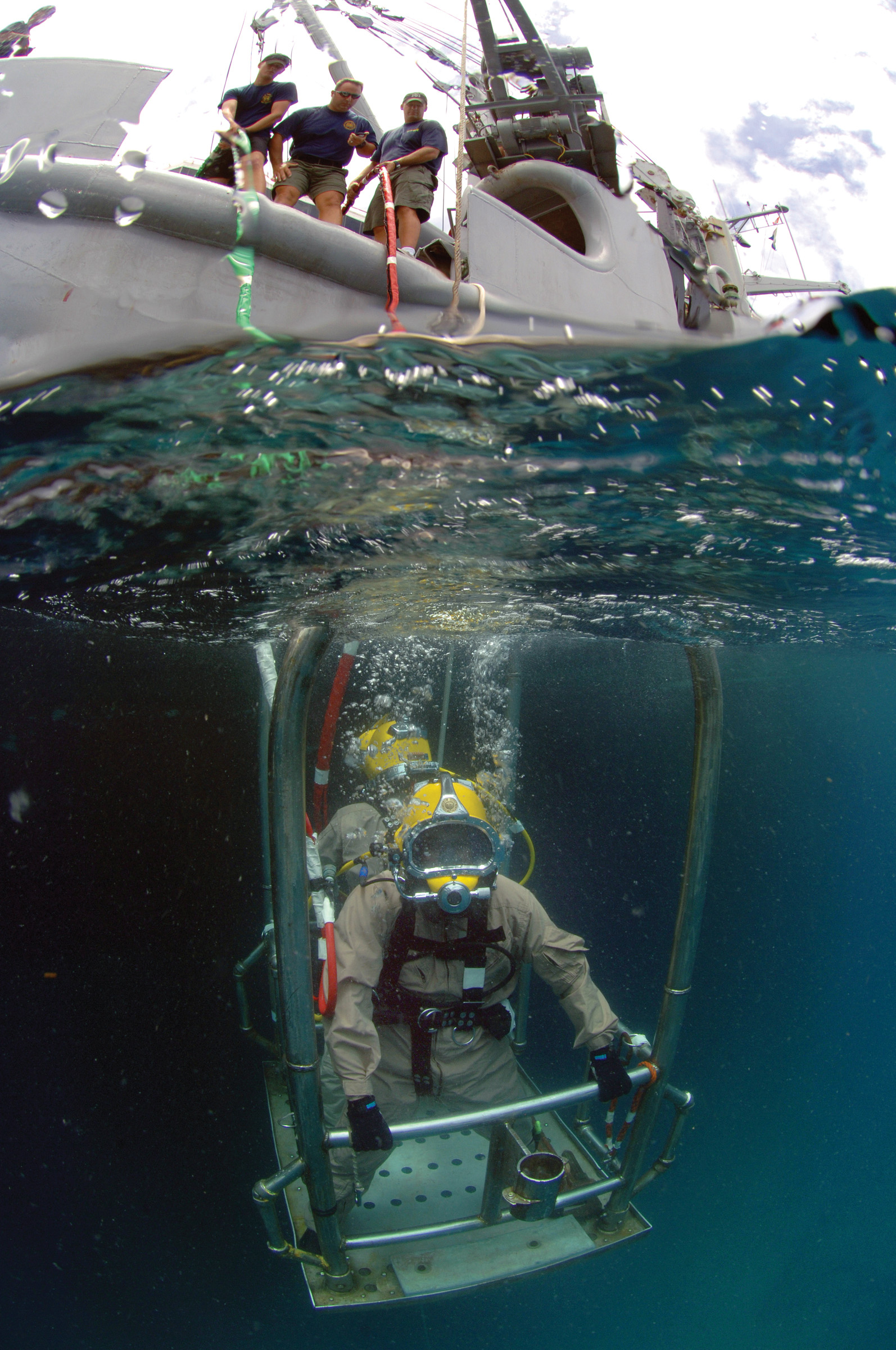 Two divers ride a stage to the sea bed from MSC rescue and salvage ship USNS Grasp in St. Kitts during Global Fleet Station 2008. Photo by MCCS Andrew McKaskle.